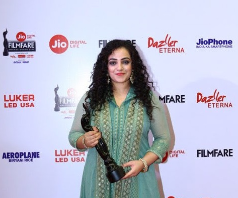 Nitya menen at Film fare awards south